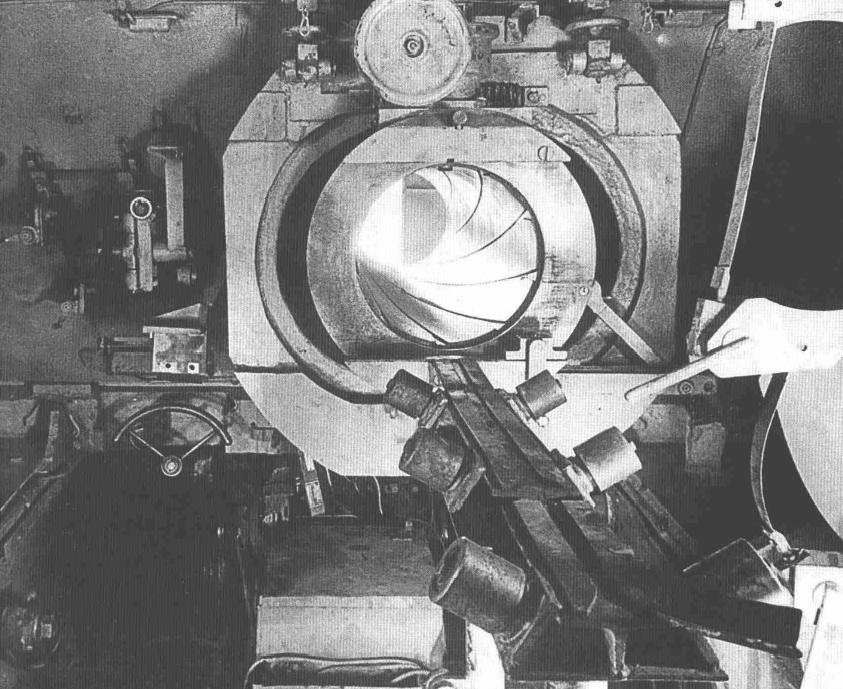 Interior of Sturmtiger captured by British troops in early 1945. Breechlock of the 380mm mortar is missing